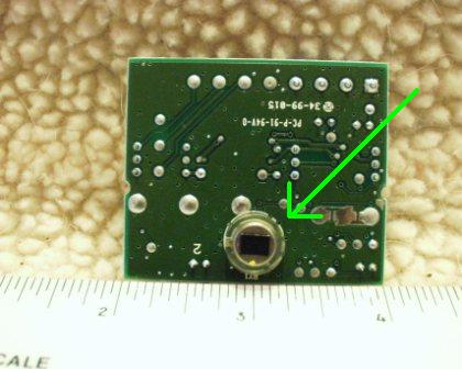 PC (printed circuit) board containing electronics required for operation of passive infrared motion detector. Pyroelectric element indicated by green arrow. This side will face the segmented parabolic mirror when installed in housing.